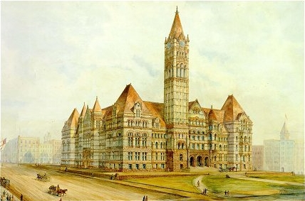 Watercolour painting of Toronto's (then) new City Hall. Painted by William Armstrong prior to the buildings construction in 1899.